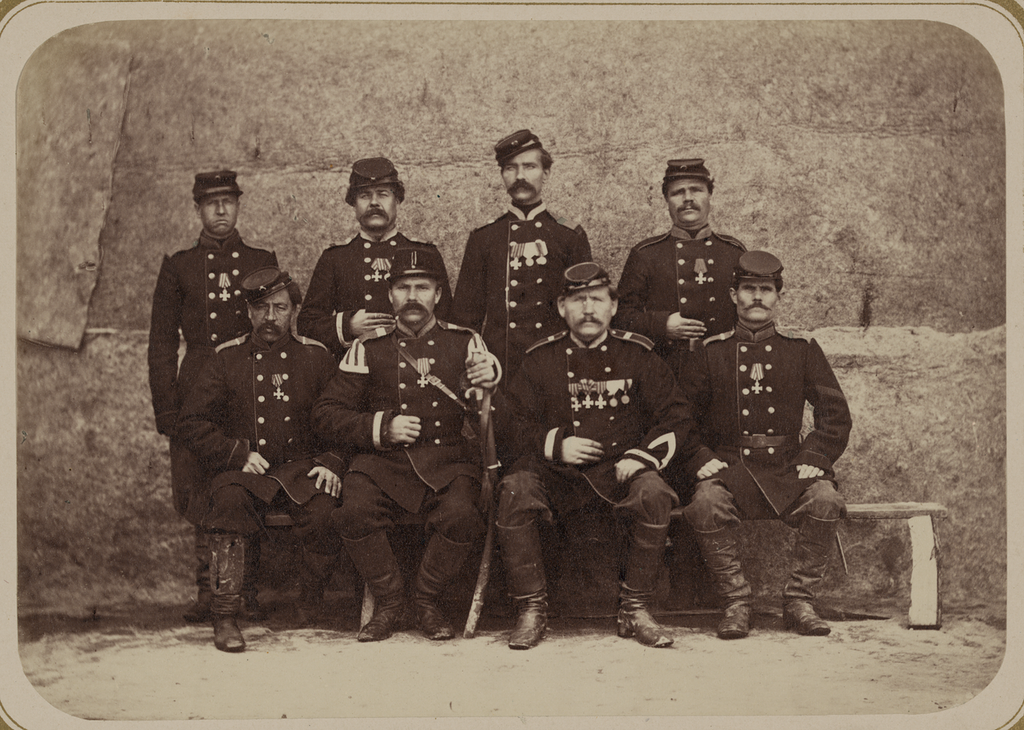 St. George cavaliers for the capture of Khojent